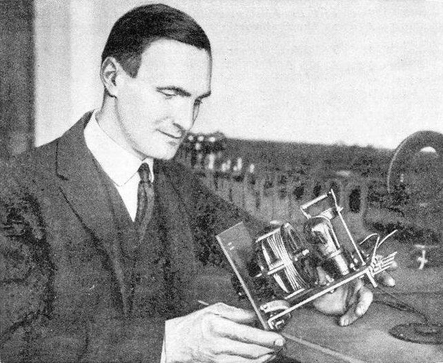 Grebe shown in Popular Science